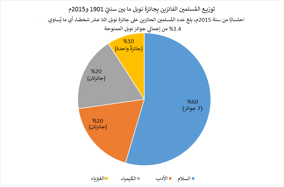 And as of 2015, twelve Nobel Prize winners have been Muslims. More than half of the twelve Muslim Nobel laureates were awarded the prize in the 21st century. Seven of the twelve winners have been awarded the Nobel Peace Prize, Although Muslims make up over 23.2% of the worlds population, they have won a total of 1.4% of all Nobel prizes between 1901 and 2015.